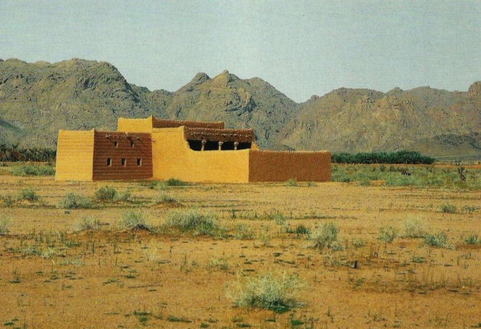 Most houses were made using local materials: mud brick, stone, wood, trunks and fronds of palm trees, and plaster. Simple mud-brick structures of one or two stories were the most common dwellings throughout the country